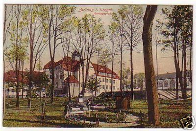 Amtsgericht Front Zwoenitz 1900